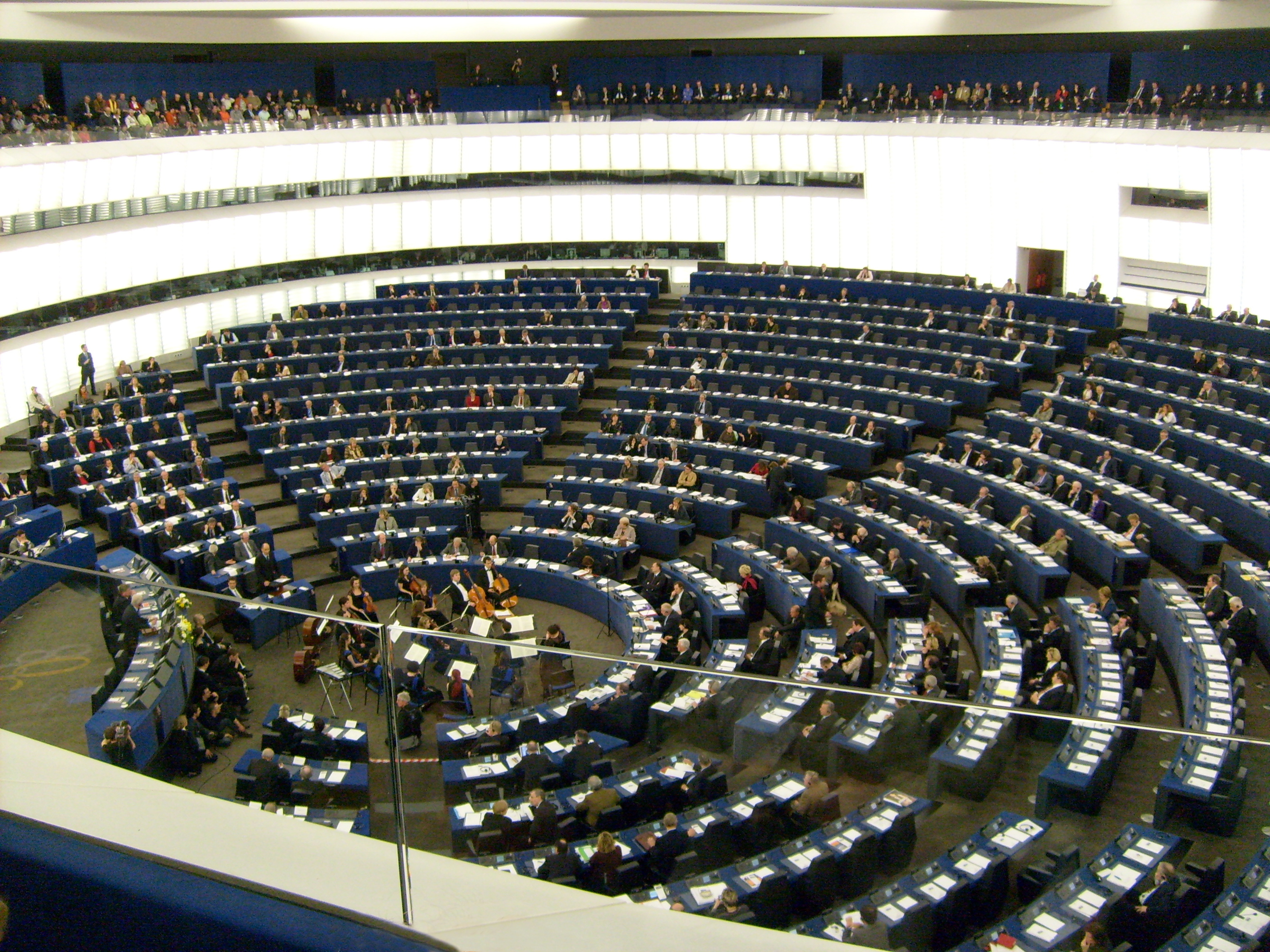 The orchestra in the center is not always present :-) This is the parliamentary meeting to celebrate of 50 years European Union (1958-2008).